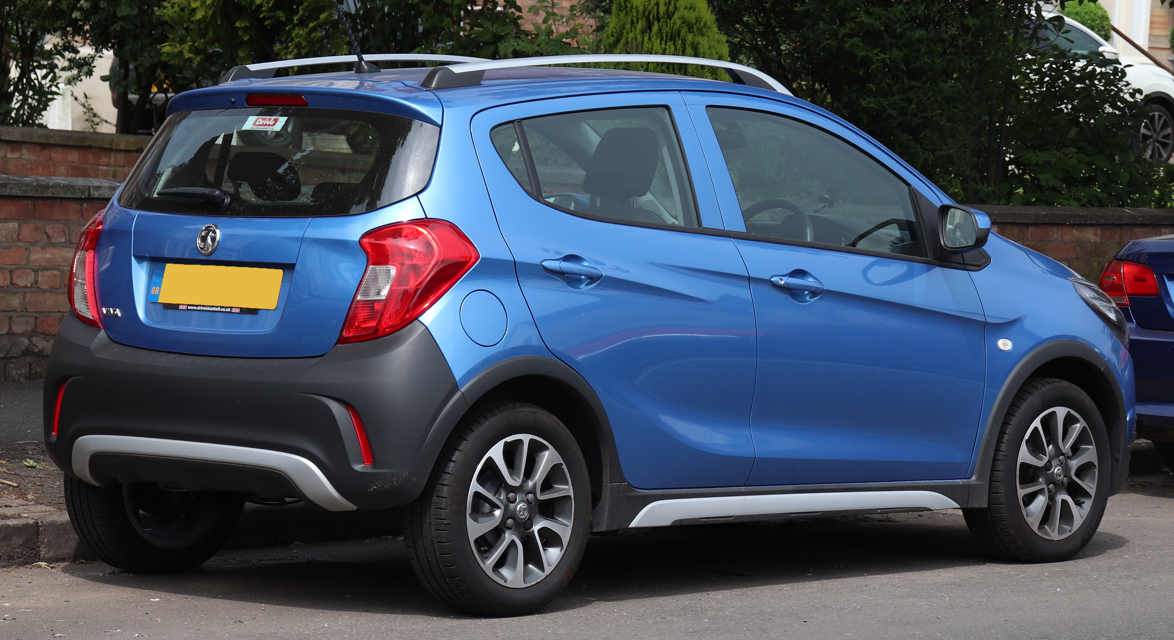 2018 Vauxhall Viva Rocks 1.0 Rear Taken in Leamington Spa